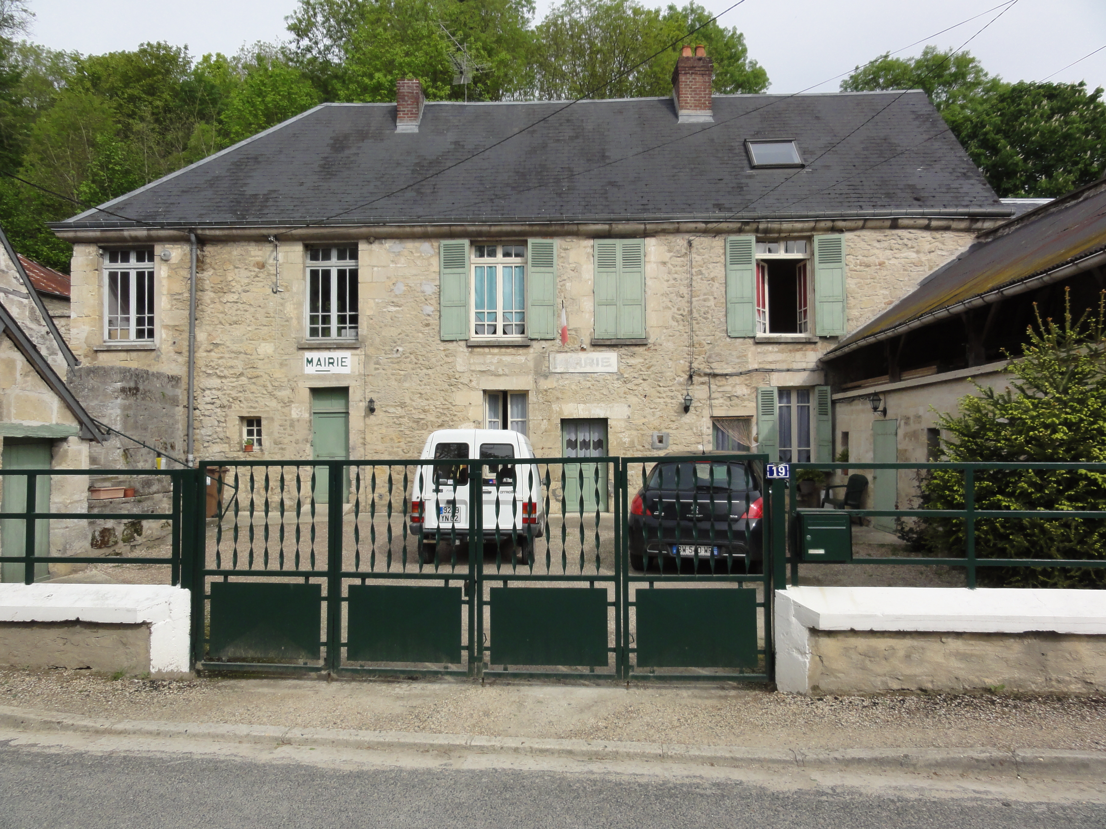 Orgeval (Aisne) mairie